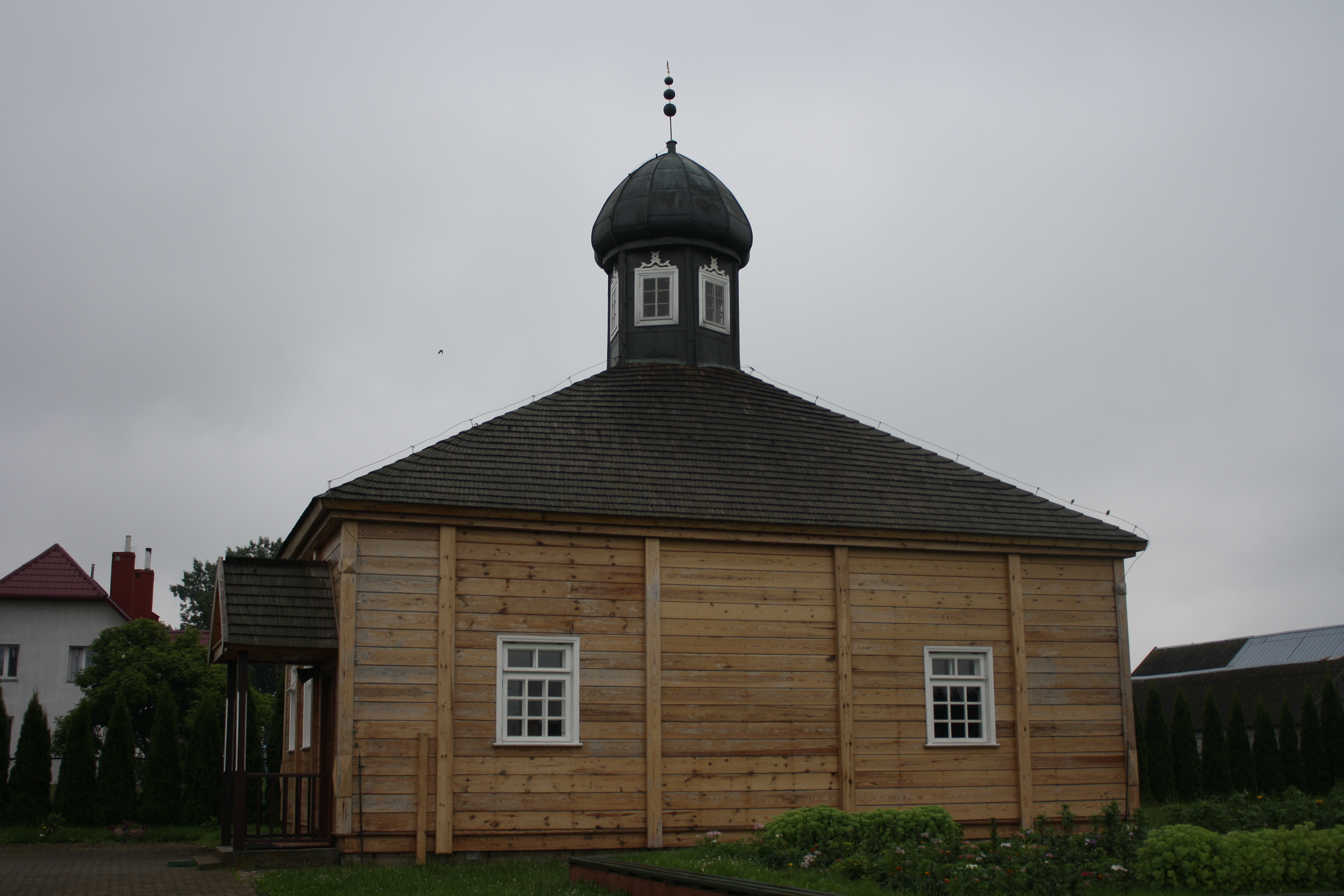 Bohoniki (Podlasie Voivodeship), Tatarian Mosque